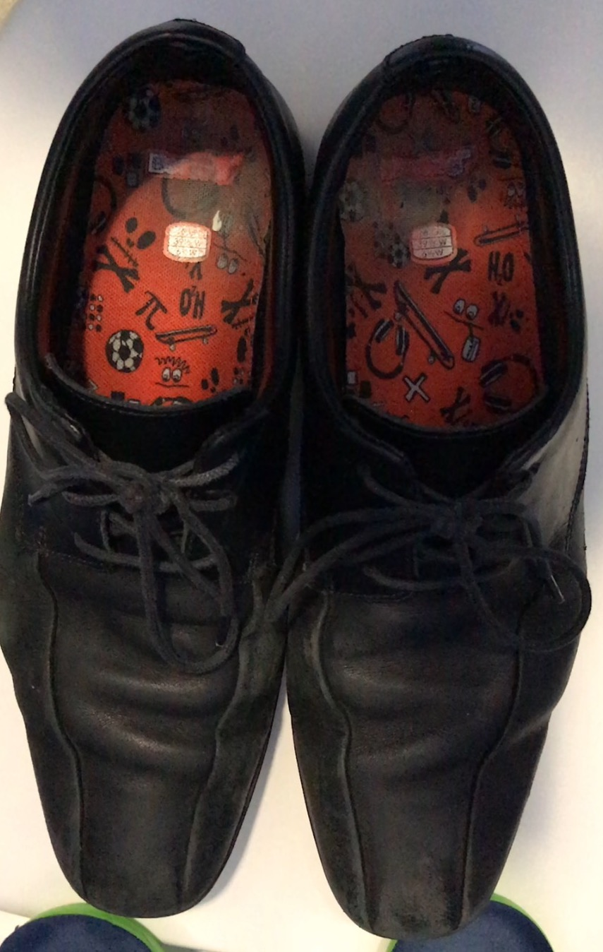 Willis Lad school shoes from Clarks